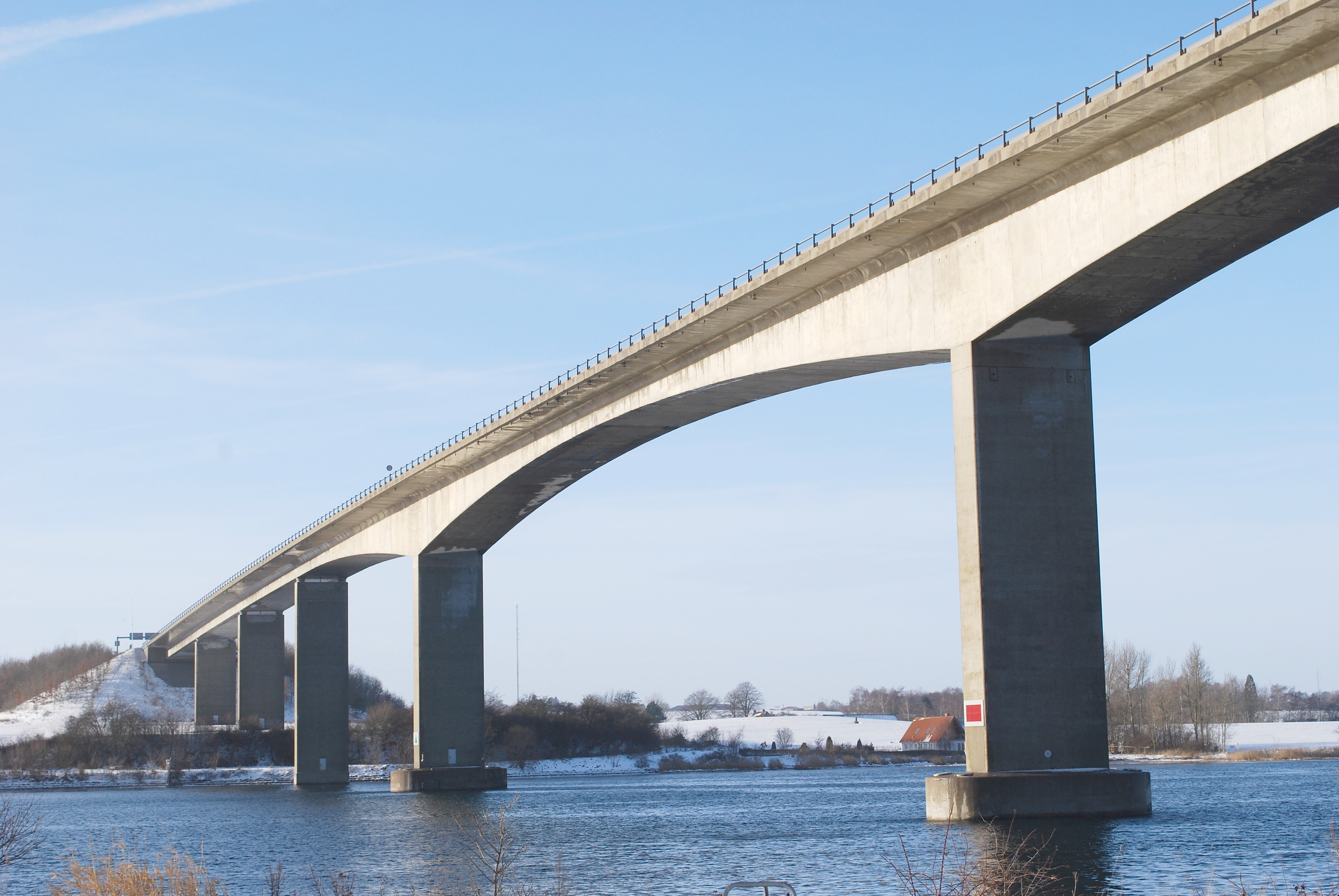 Alssundbroen, the new bridge over Als Sund, Sønderborg, Denmark